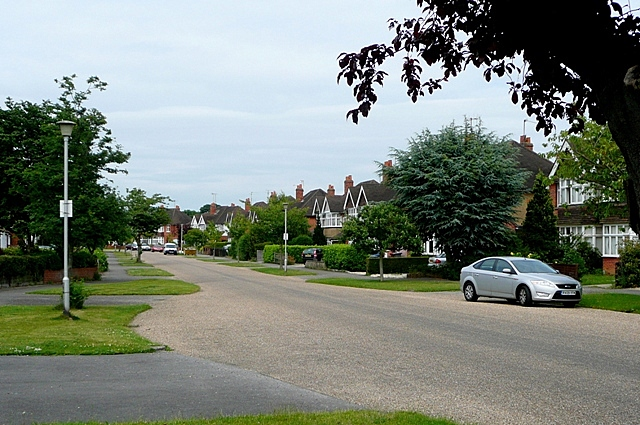 Kenilworth Avenue A well-kept private road of 1930s bay-fronted semi-detached houses.